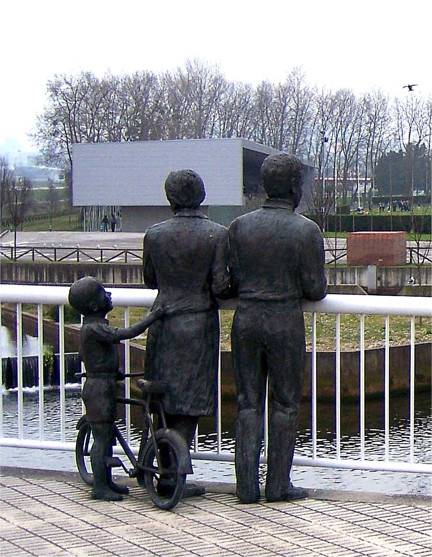 Las Mestas Athletic Complex